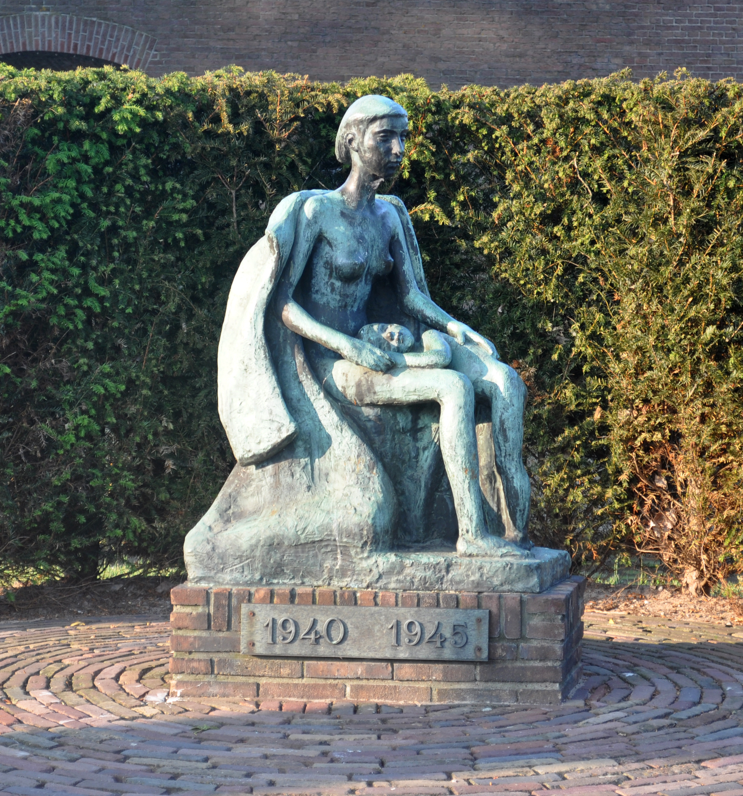 War memorial "weduwe met kind" (Widow with child) by Lidi Buma in 1956. Until 2008 it was at the Prinses Irenelaan but after 2008 it is situated at it's current place at the Ossenmarkt in front of the Torenfort in Weesp.